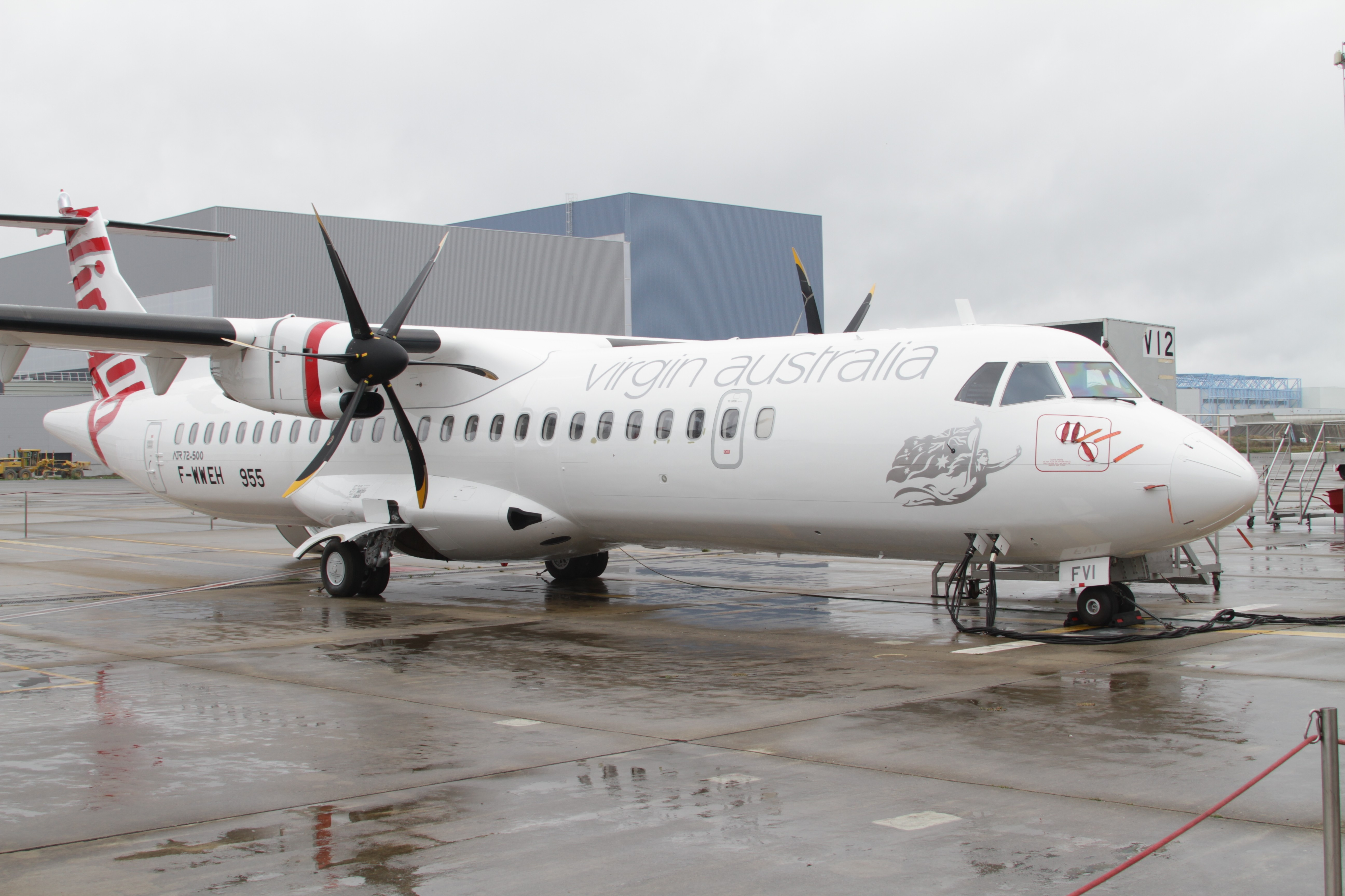 A photograph taken in Toulouse France of the second ATR72 to be operated by Skywest for Virgin